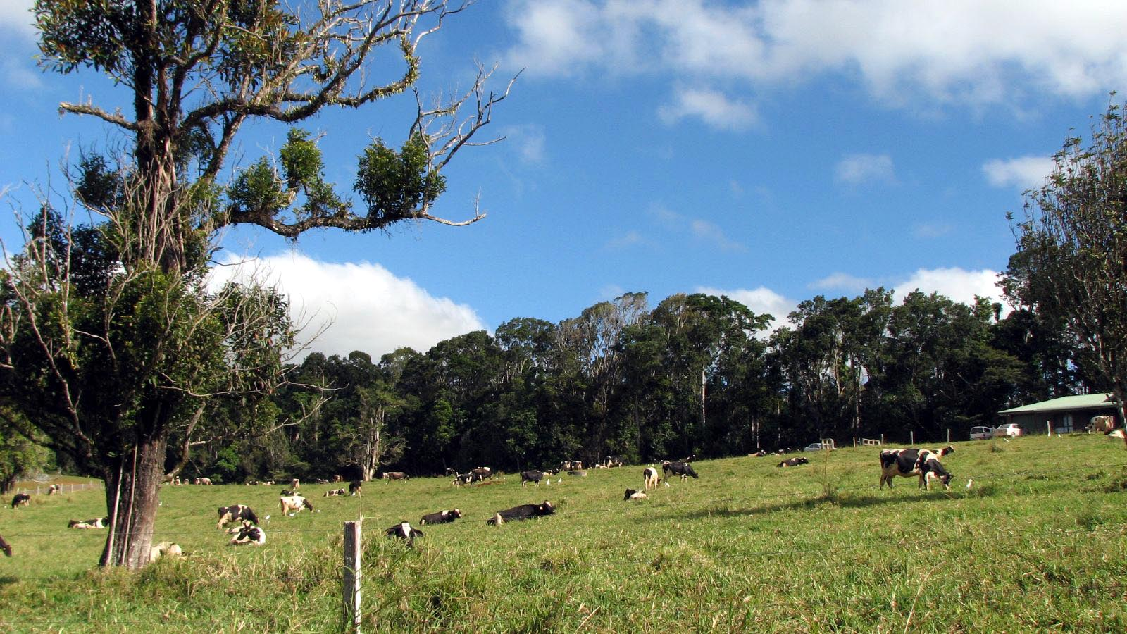 Atherton Tableland, Queensland, Australia